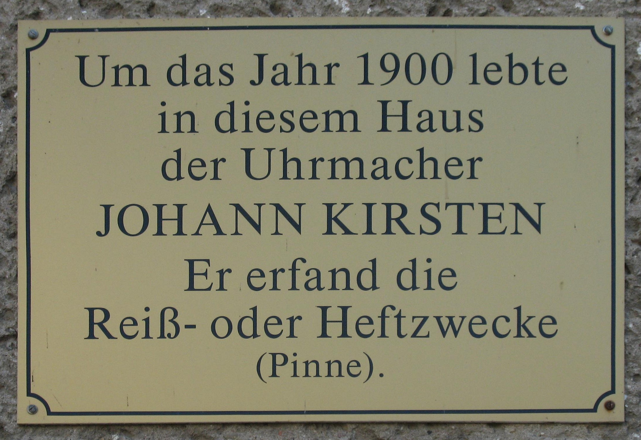 Memorial tablet for Johann Kirsten in Lychen in Brandenburg, Germany